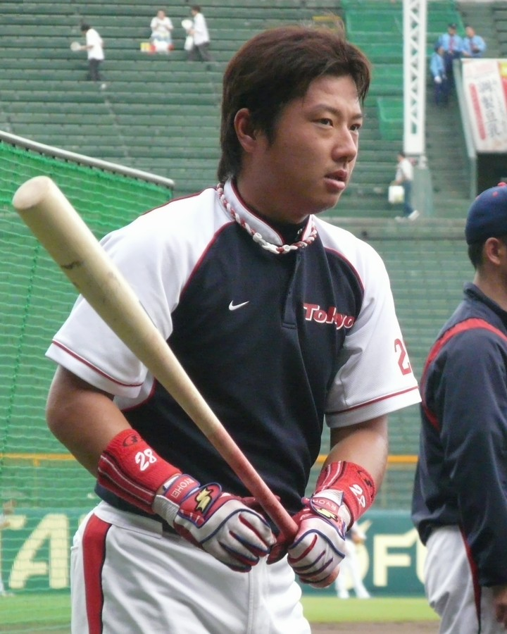 Ryohei Kawamoto, catcher of the Tokyo Yakult Swallows, at Hanshin Koshien Stadium